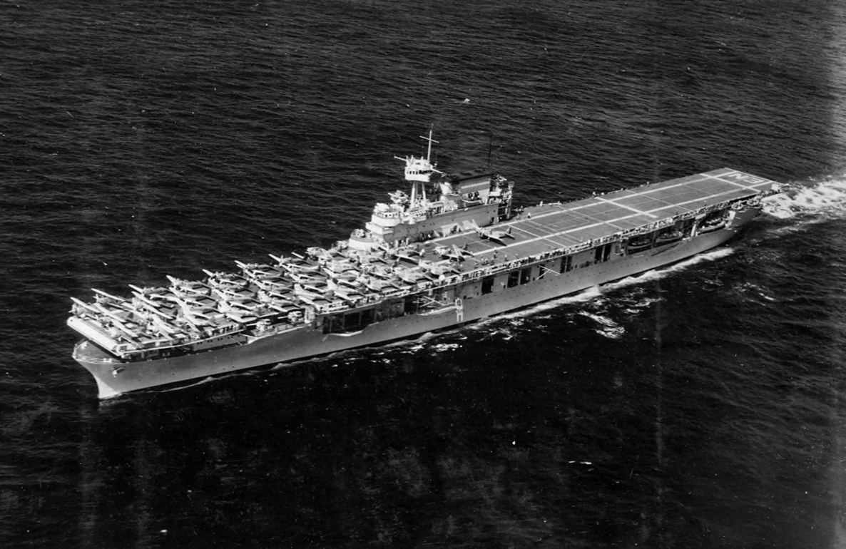 The U.S. Navy aircraft carrier USS Enterprise (CV-6) underway in the late 1930s. On deck are Grummen F3F fighters, Northrop BT-1 dive bombers and Douglas TBD-1 Devastator torpedo bombers.